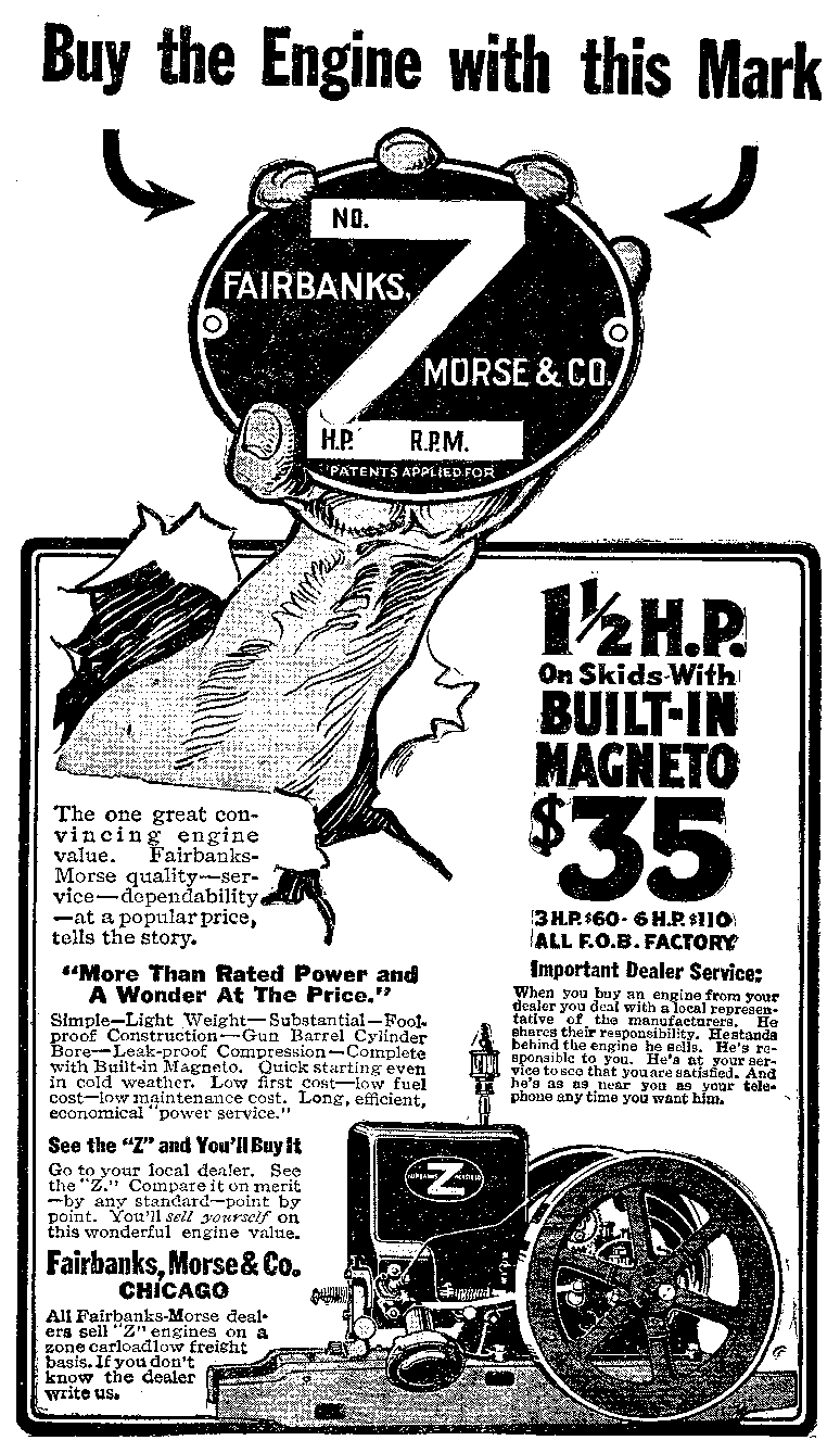 $35 Compare it on marit built in magneto arm coming out of paper fairbanks morse z headless chicago